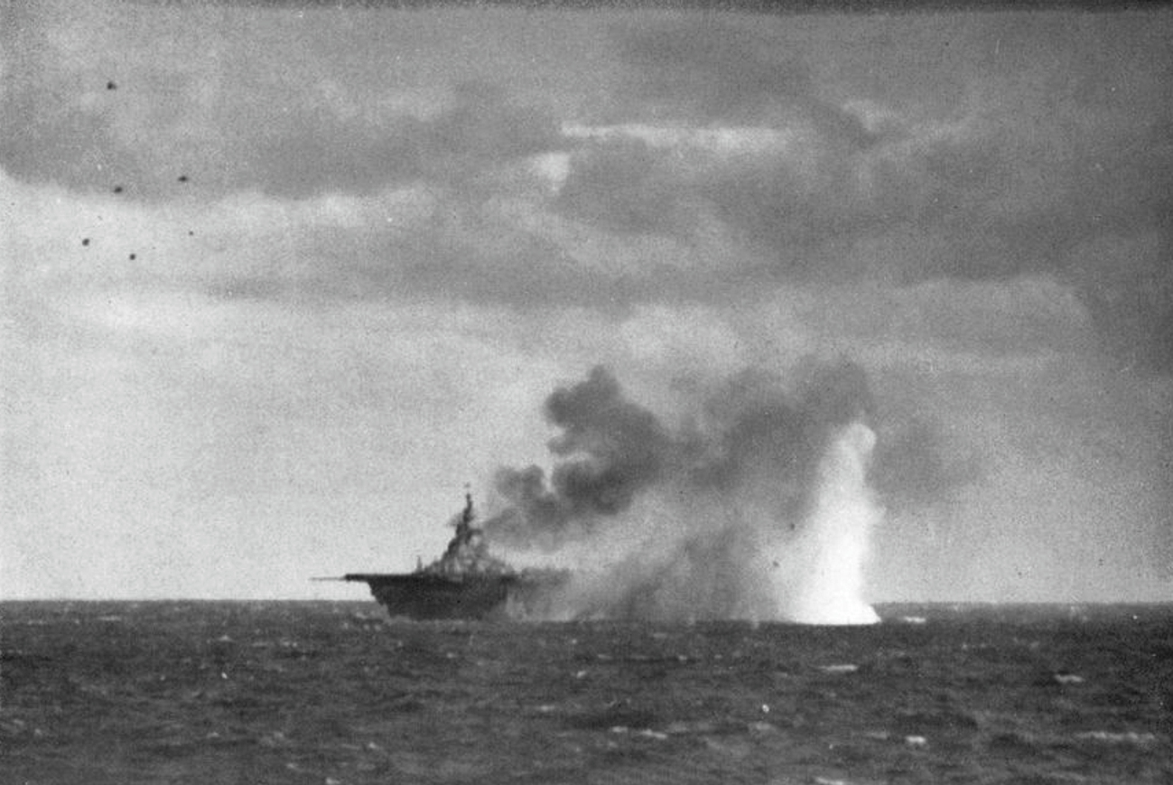 The U.S. Navy aircraft carrier USS Wasp (CV-18) under attack by Japanese aircraft off Japan on 19 March 1945. The bomb penetrated the flight deck and the armor-plated hangar deck, and exploded in the crew's galley. Many of her shipmates were having breakfast after being at general quarters all night. The blast disabled the number-four fire room. Around 102 crewmen were lost. Despite the losses, Wasp continued operations with the Task Group and the air group was carrying out flight operations 27 minutes after the damage.